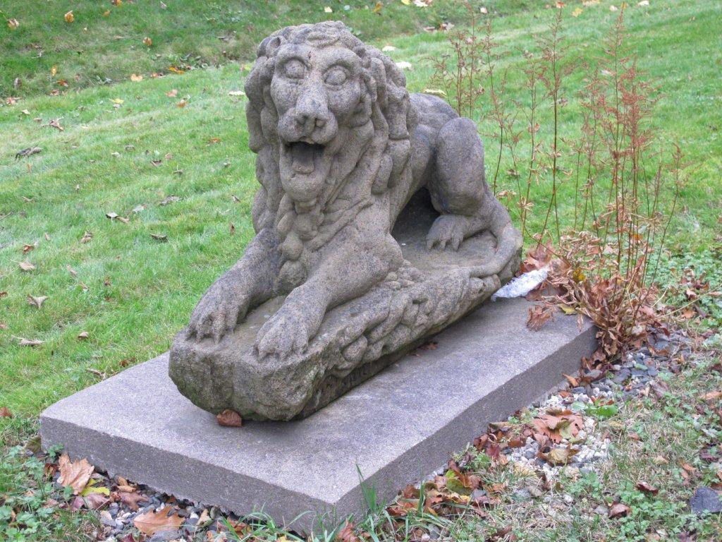 Lion By John Wilson Nova Scotia